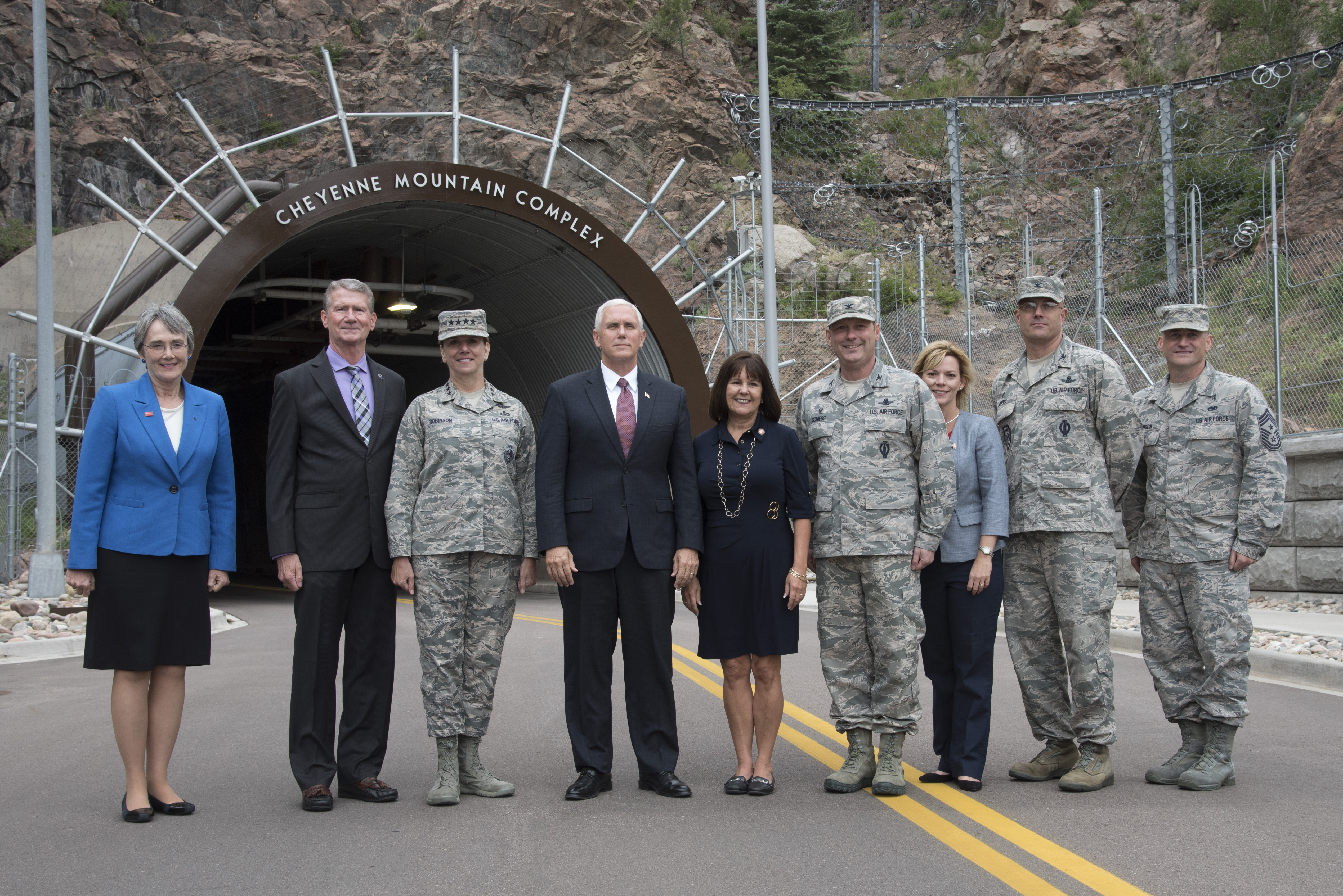 CHEYENNE MOUNTAIN AIR FORCE STATION, Colo. - Vice President Mike Pence alongside Secretary of the Air Force Heather Wilson visit Cheyenne Mountain Air Force Station with Gen. Lori Robinson, North American Aerospace Defense Command/U.S. Northern Command commander, and 21st Space Wing leadership June 23, 2017. As an integral part of the 21st Space Wing, Cheyenne Mountain AFS provides and employs global capabilities to ensure space superiority to defend our nation and allies. (U.S. Air Force photo by Senior Airman Dennis Hoffman)